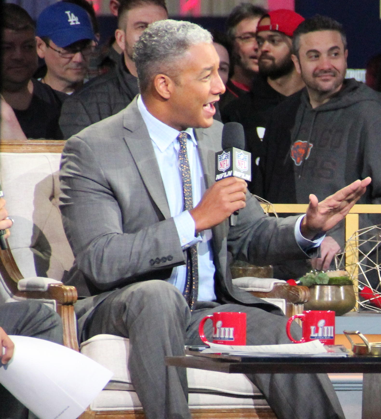 Steve Wyche at the Super Bowl Experience at Super Bowl LIII